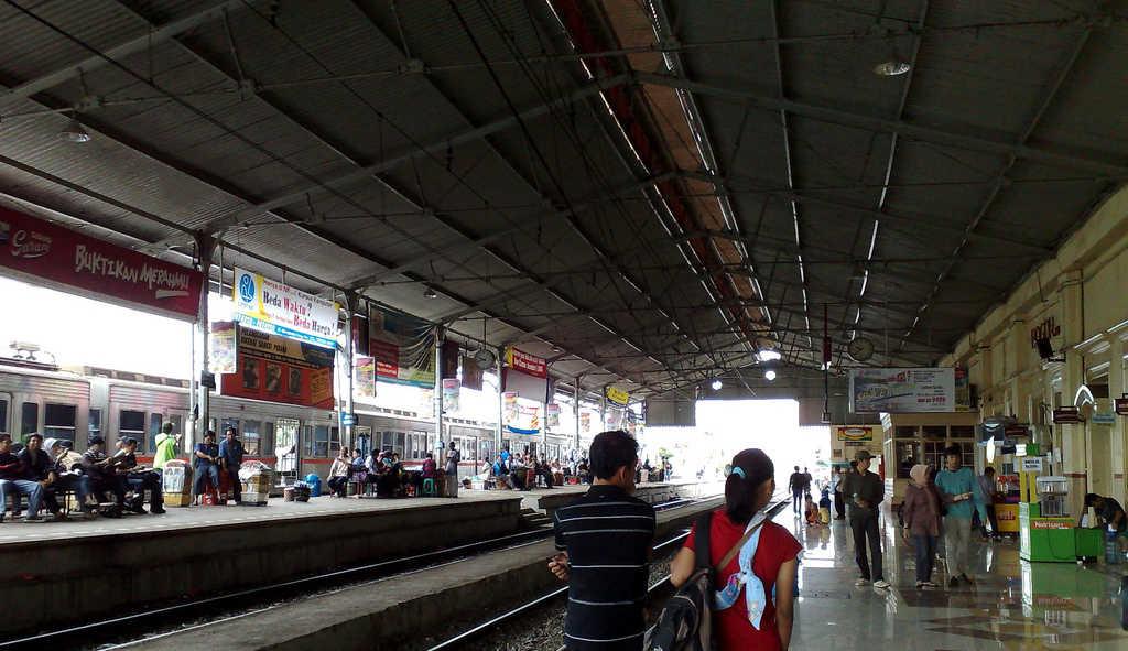 Bogor Station, Bogor, West Java